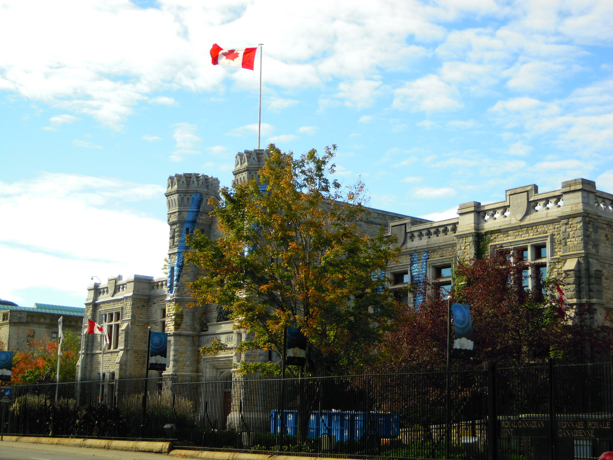 The Sussex Drive façade of the Royal Canadian Mint in Ottawa, Ontario, Canada. Olympic medals are depicted on the building as the Royal Canadian Mint crafted the medals for the Vancouver 2010 Olympic and Paralympic Winter Games.